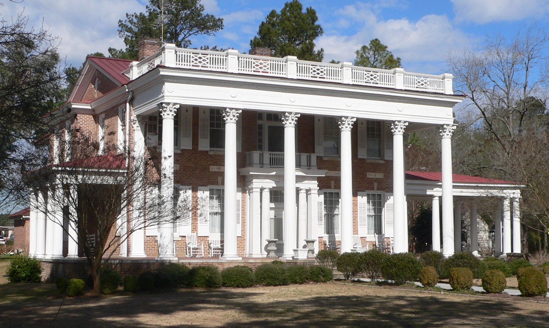 The Manor, located at 529 N. Main Street in Bishopville, South Carolina.